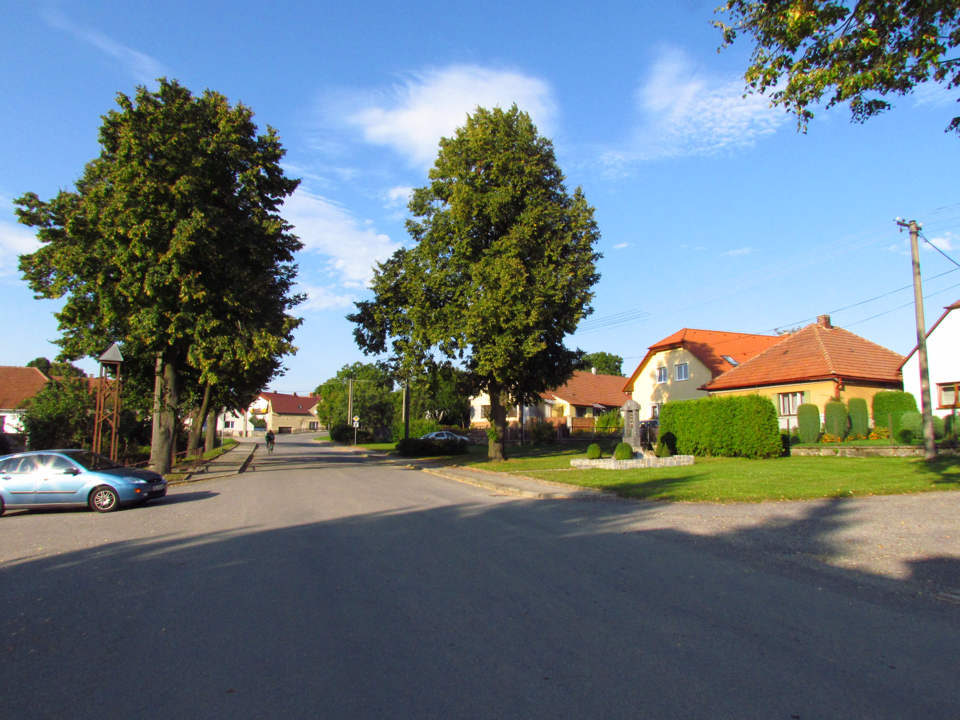 Center of Kouty, Třebíč District.